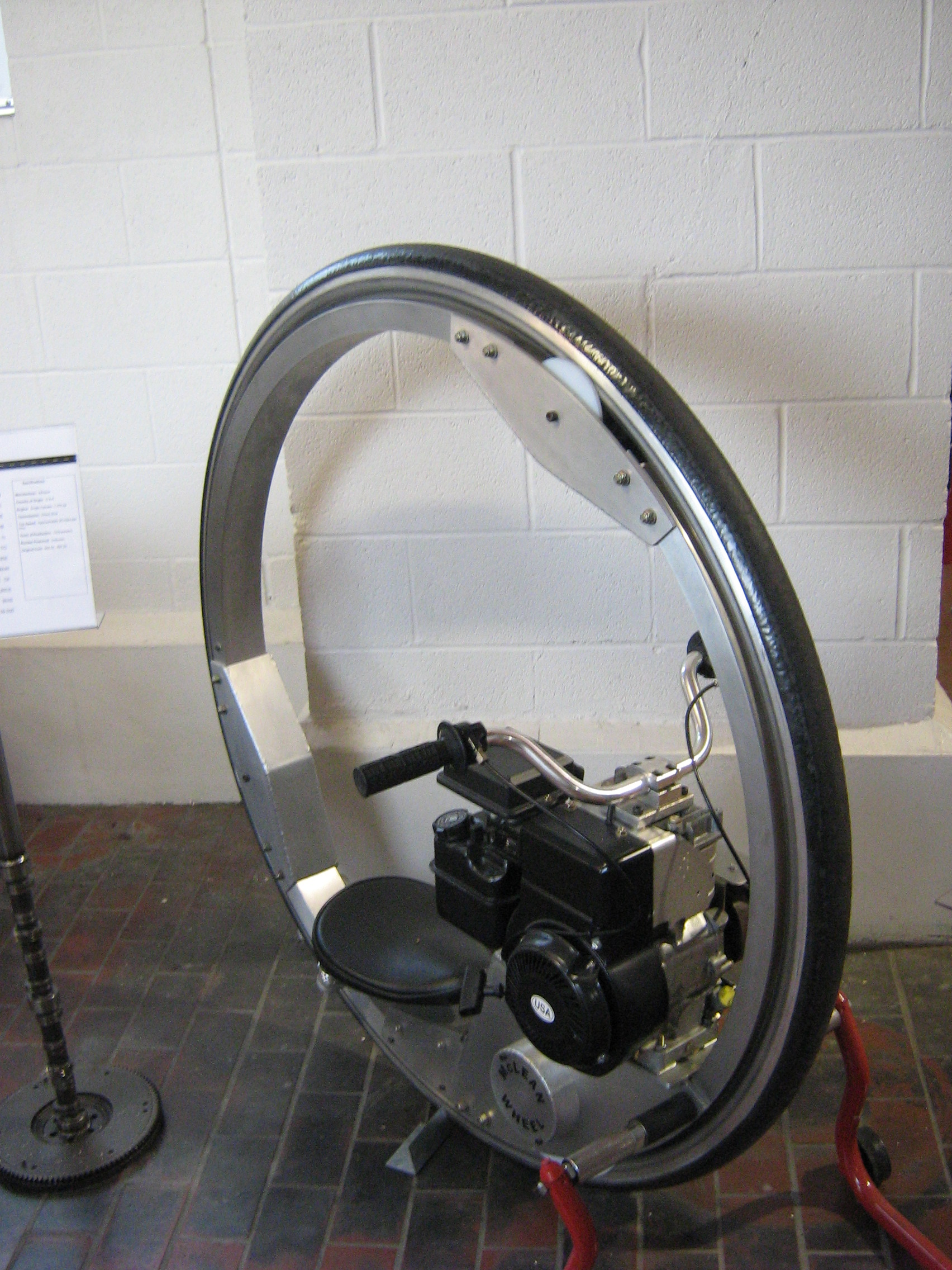 1998 McLean